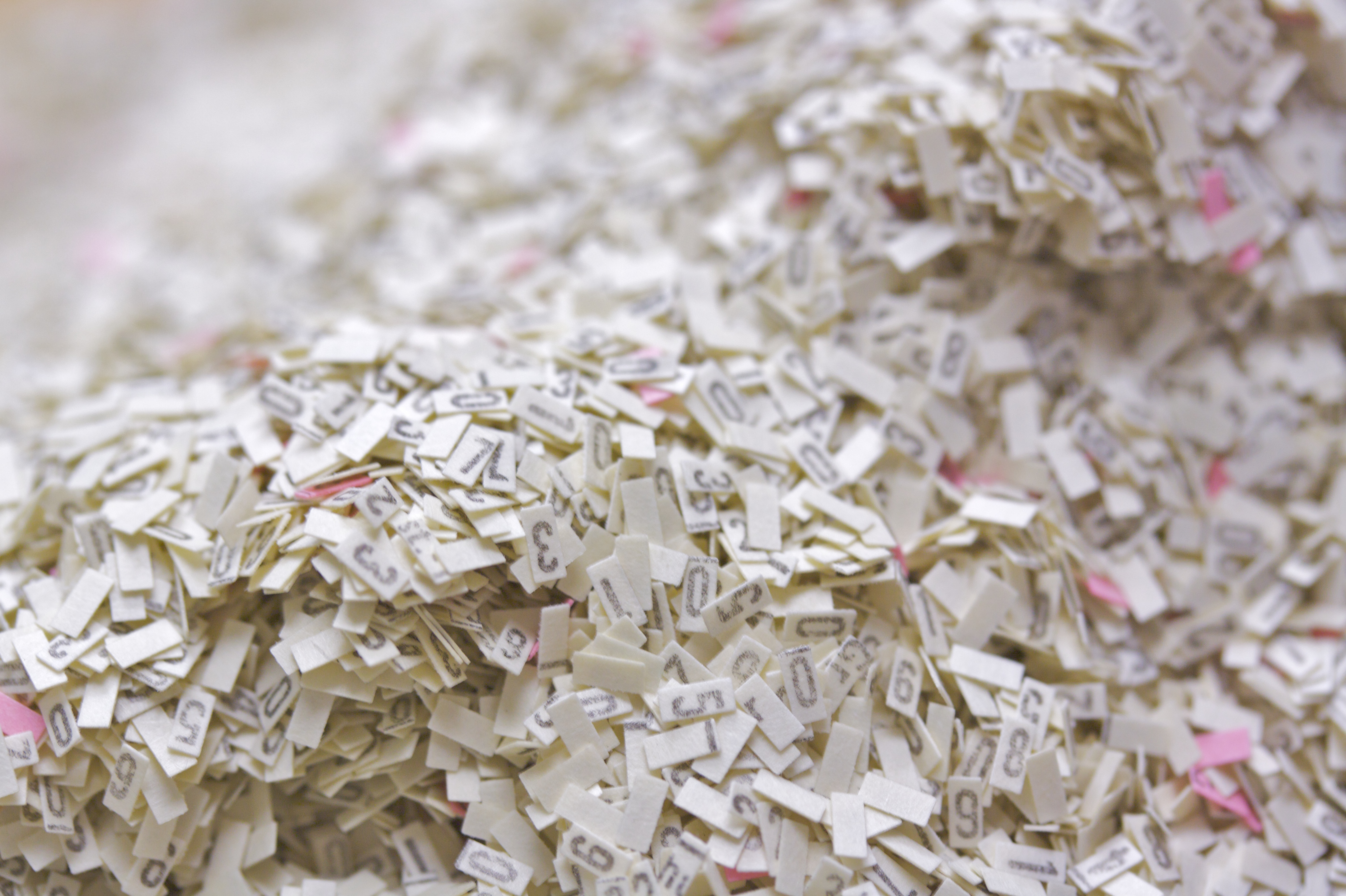 Mounds of chads produced by punching IBM cards.